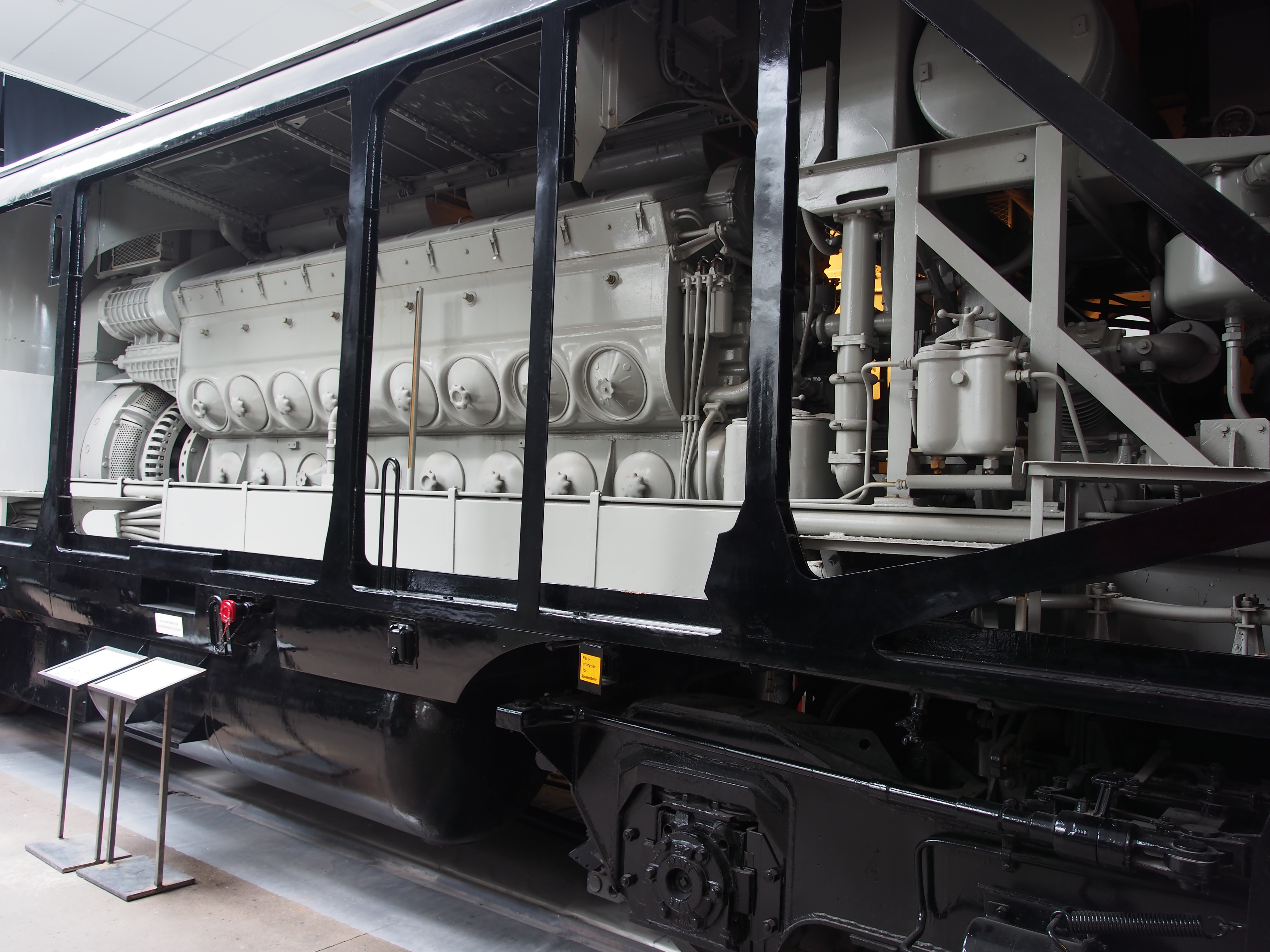 Photographed at the Danmarks Jernbanemuseum.